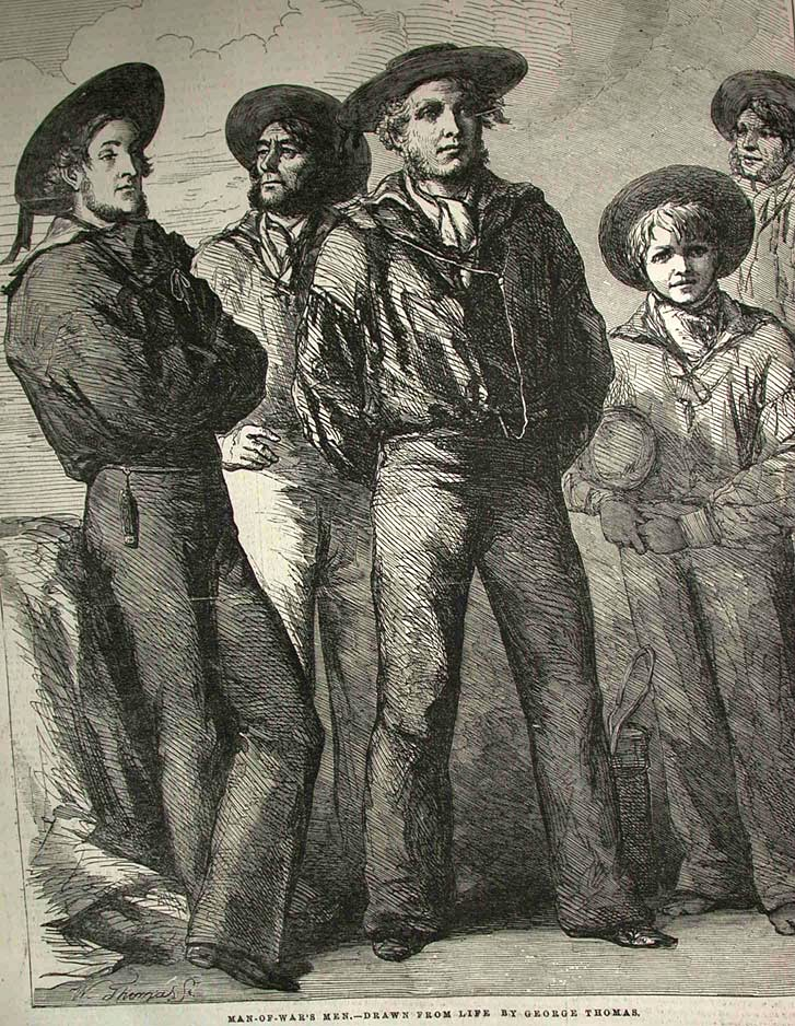 "Man-of-War's Men. Drawn from life by George Thomas." Illustration showing mid-1800s sailors in uniform, published in the Illustrated London News in early 1854. Reprinted and described at